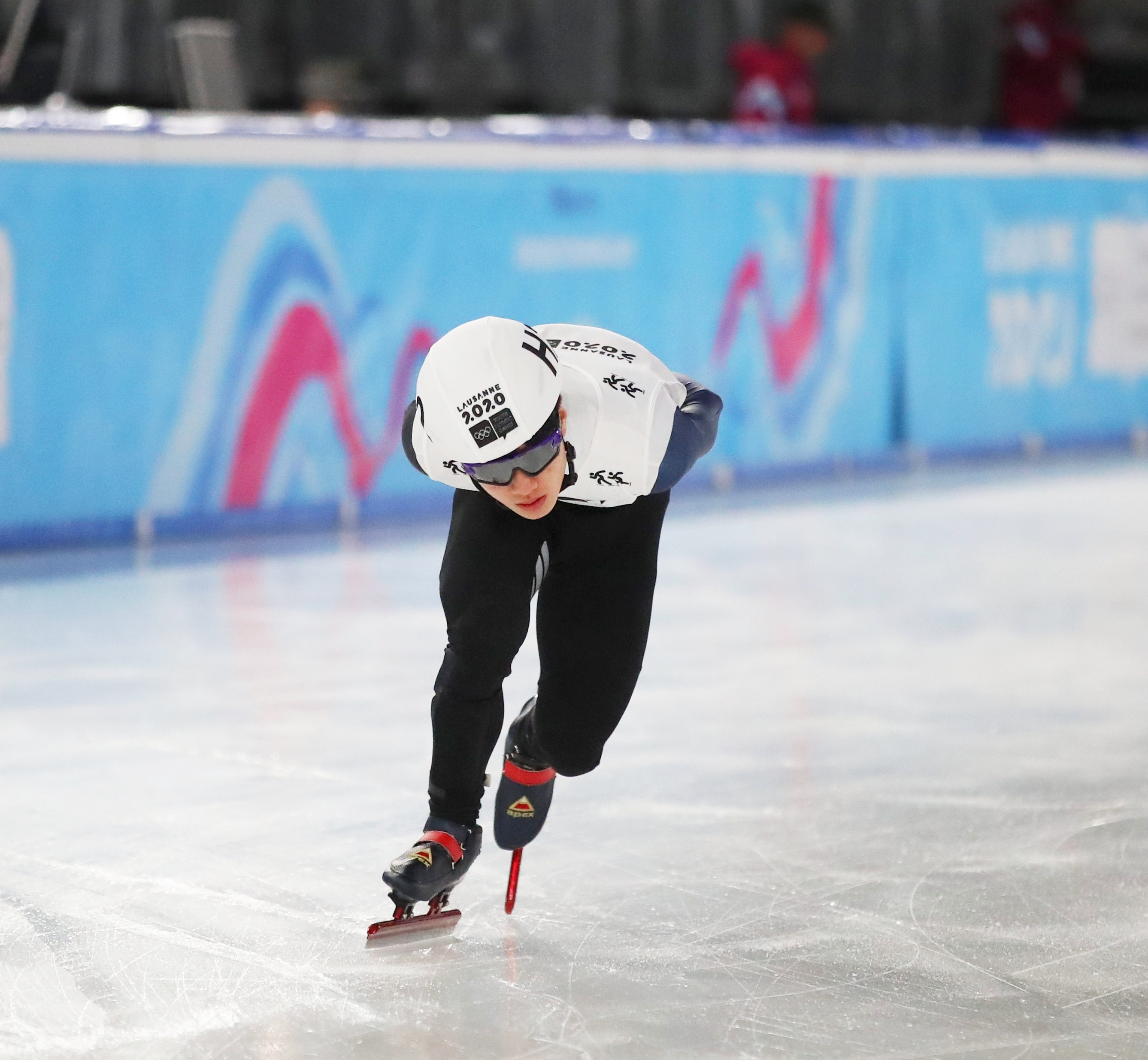 Semifinal 2 of the Short Track Speed Skating – Mixed NOC Team Relay at the 2020 Winter Youth Olympics in Lausanne on 22 January 2020.